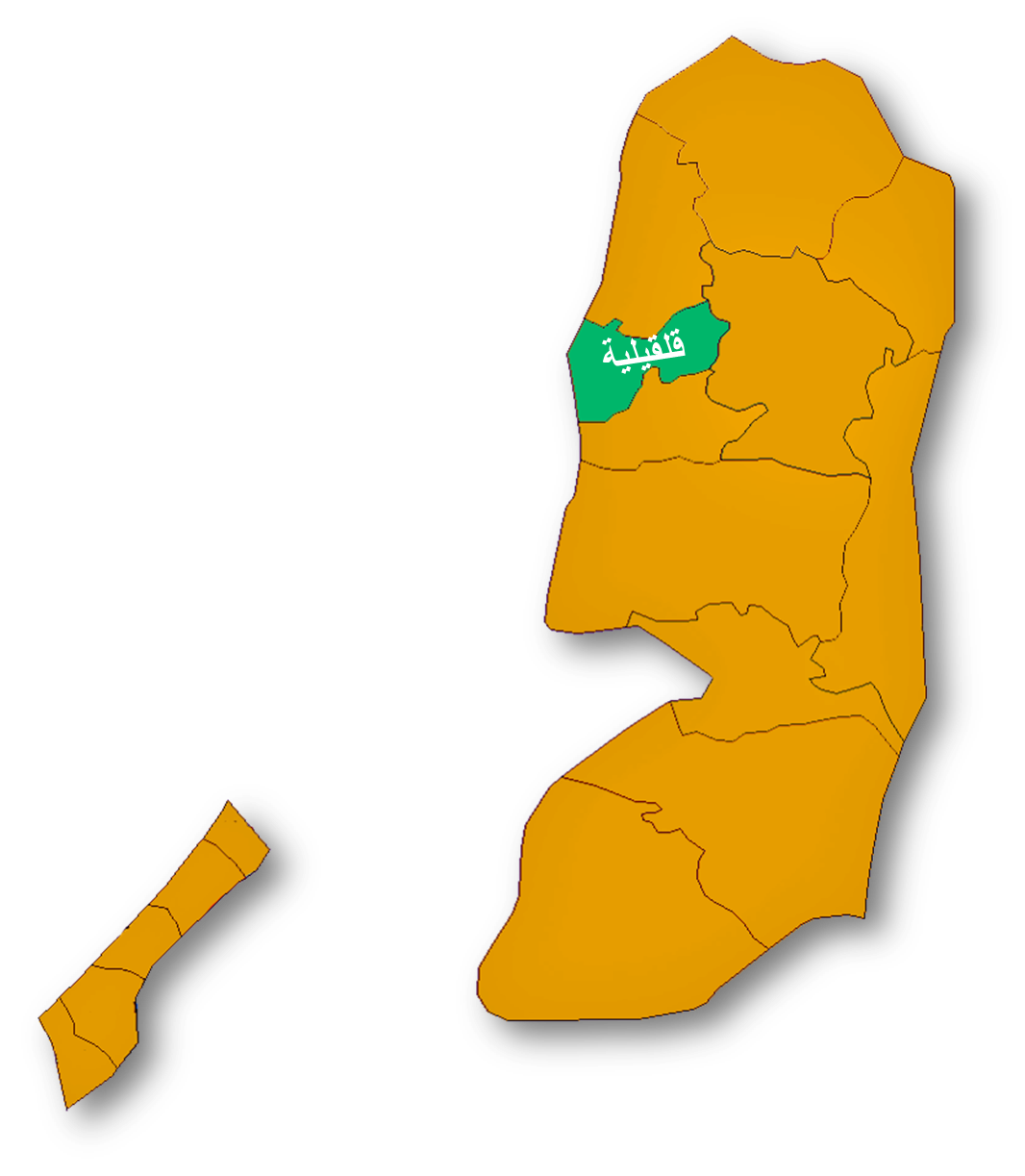 Map of the Palestinian Authorities showing the Governate of Qalqilyah